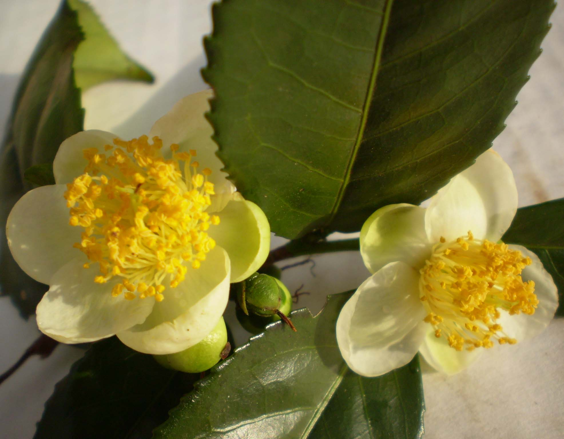 Flowers of the Camellia sinensis